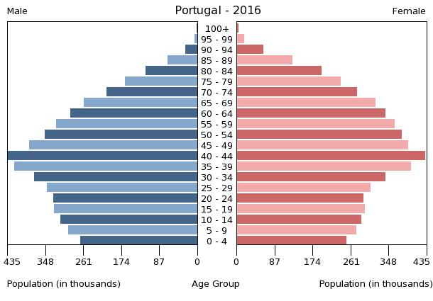 The population pyramid of Portugal illustrates the age and sex structure of population and may provide insights about political and social stability, as well as economic development. The population is distributed along the horizontal axis, with males shown on the left and females on the right. The male and female populations are broken down into 5-year age groups represented as horizontal bars along the vertical axis, with the youngest age groups at the bottom and the oldest at the top. The shape of the population pyramid gradually evolves over time based on fertility, mortality, and international migration trends.